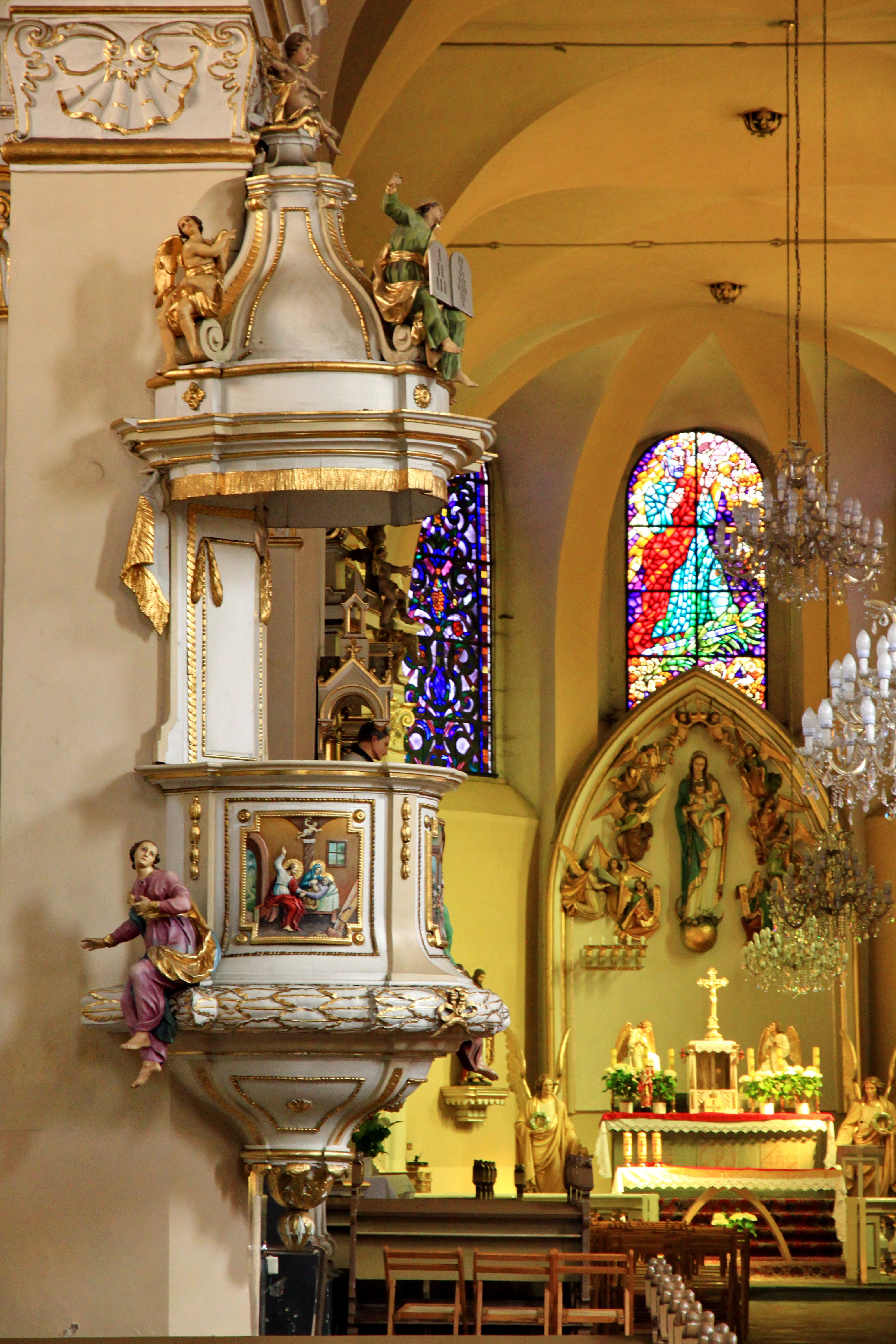 Racibórz, former Dominican Order church, now Saint James church, 13th century, 15th century, 1874, 1947